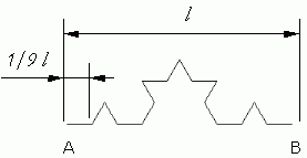 Koch Curve, level 2 by Sblive.